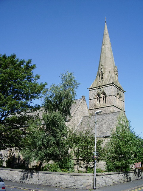 St Peter's parish church, Atherton Road, Hindley, Greater Manchester, seen from the south